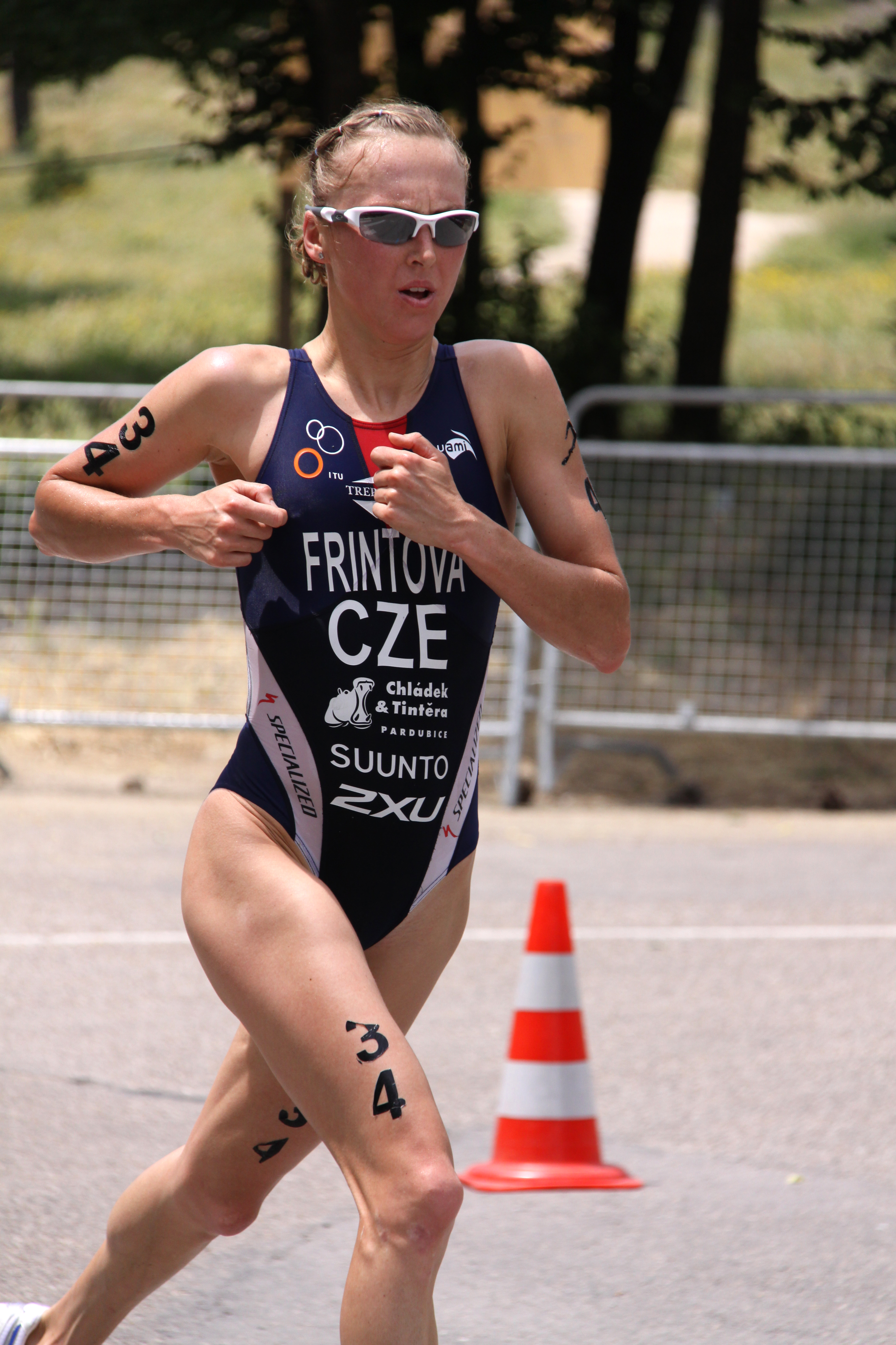 Vendula Frintova at the World Championship Series triathlon in Madrid, 2010.